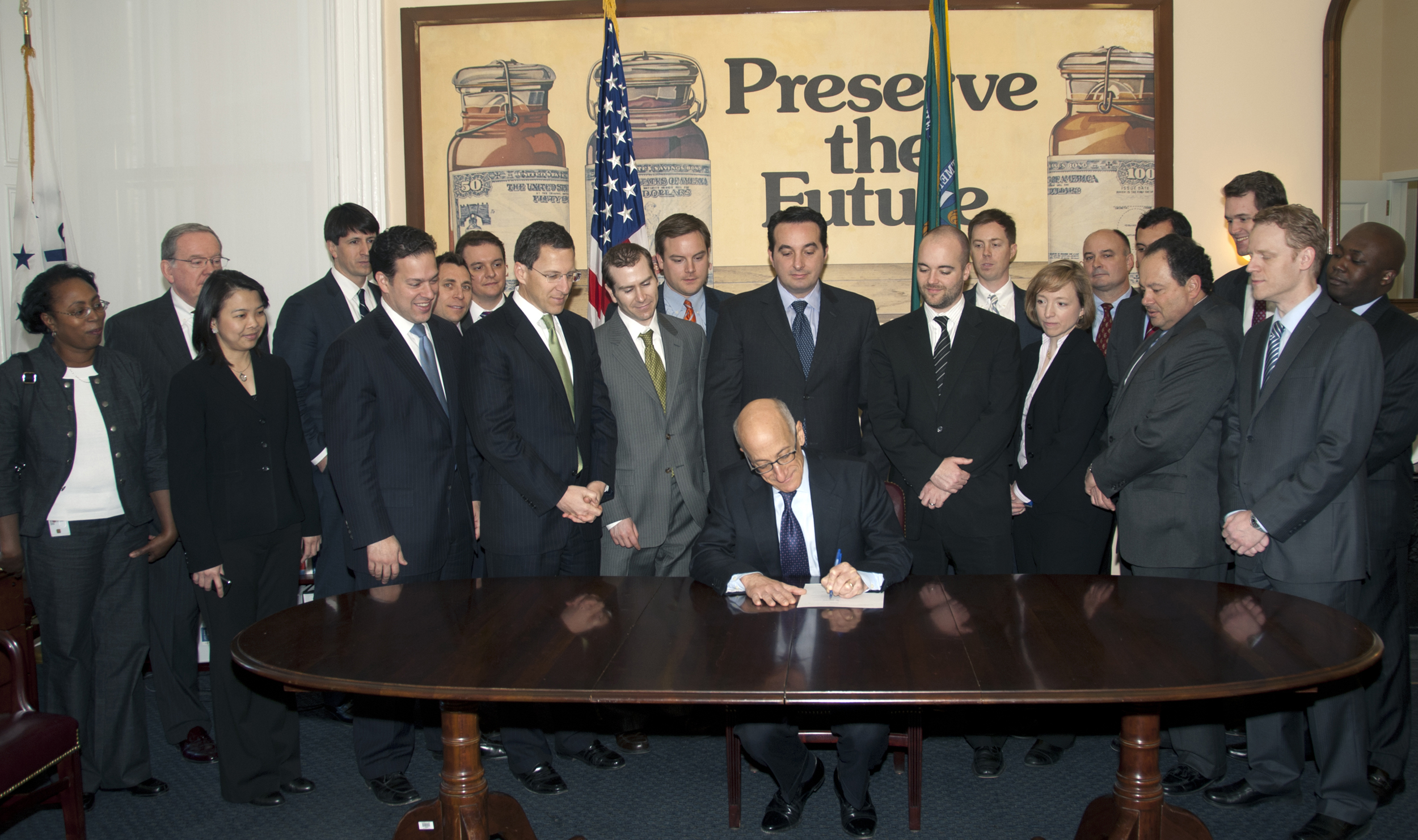 Assistant Secretary for Financial Stability Timothy G. Massad confirms receipt of the proceeds from the sale of Treasury’s final shares of American International Group (AIG) common stock.